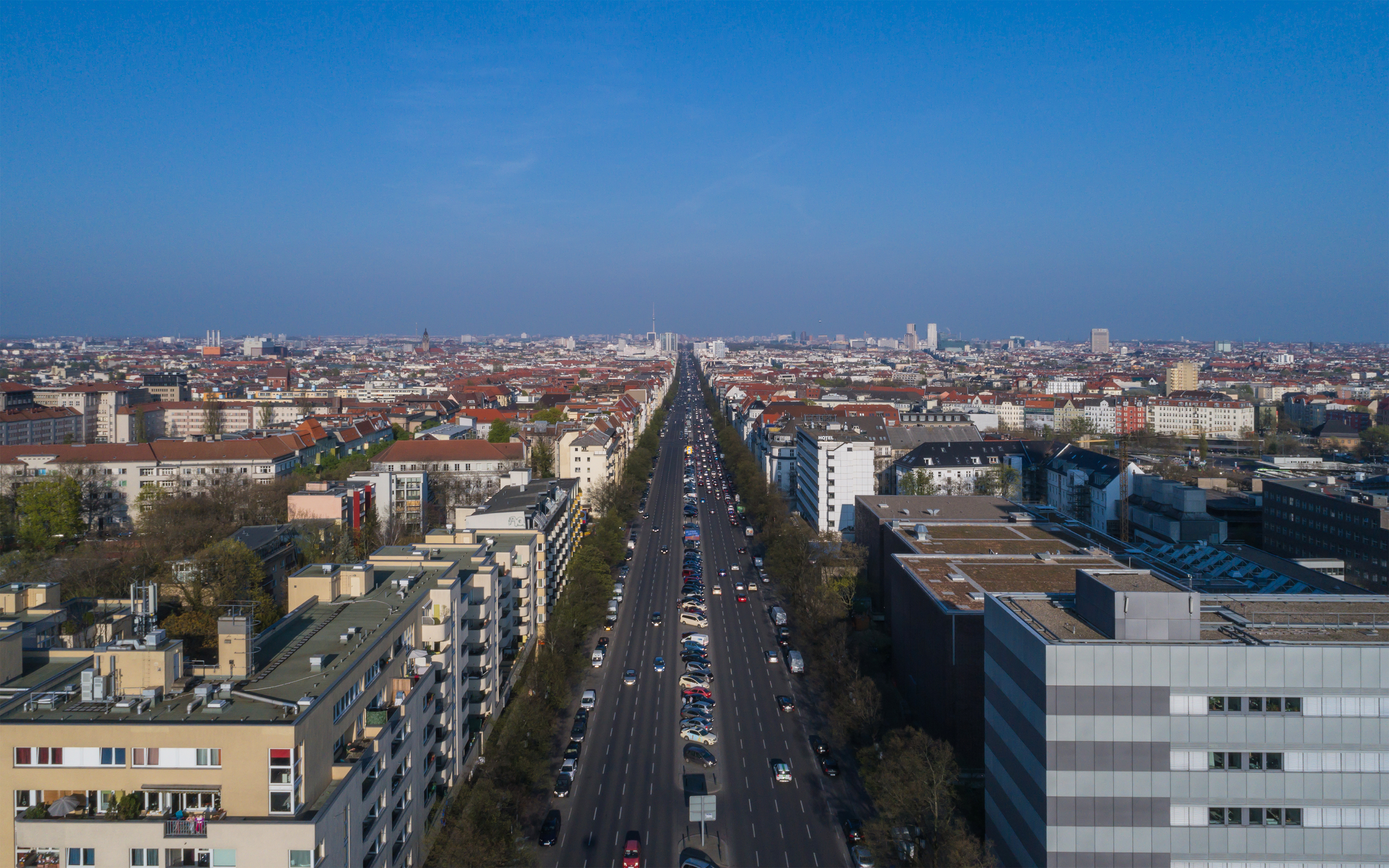 Aerial view of Kaiserdamm in Berlin (Germany)